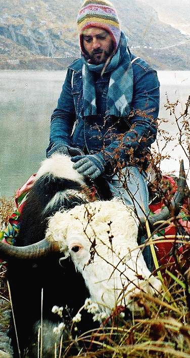 A Yak rider near Tsomogo Lake (3,780 m), Sikkim.